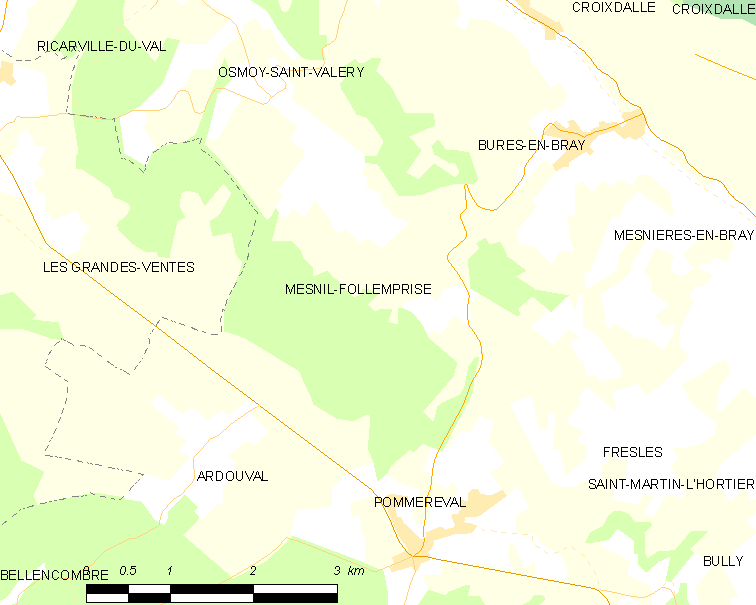 Map of French municipality Mesnil-Follemprise